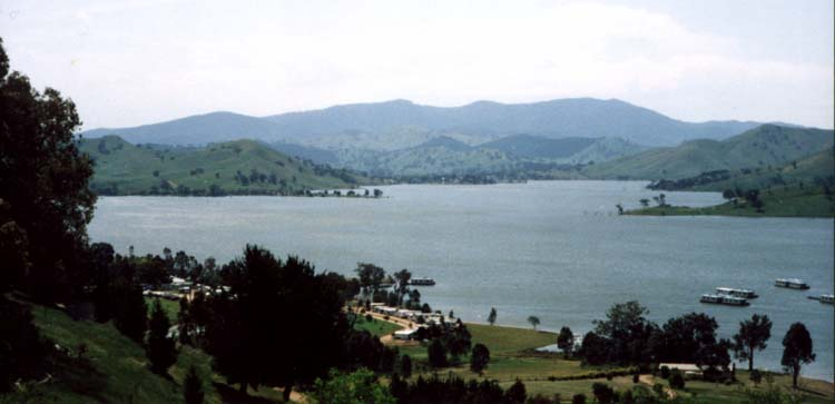 Peppin Point, November 2010